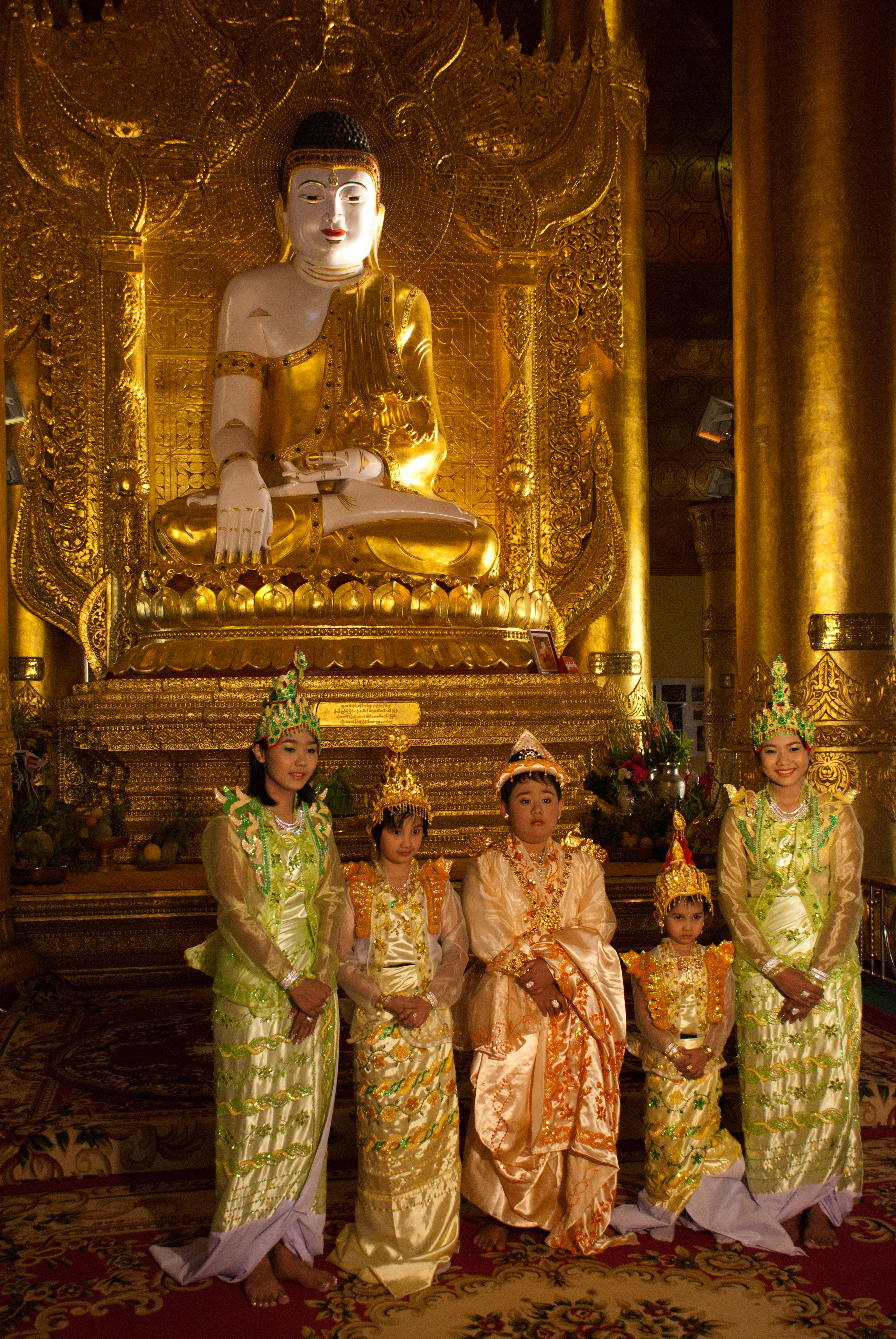 Na htwin mingala, Maymyo